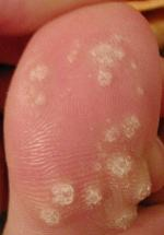 Warts on the big toe